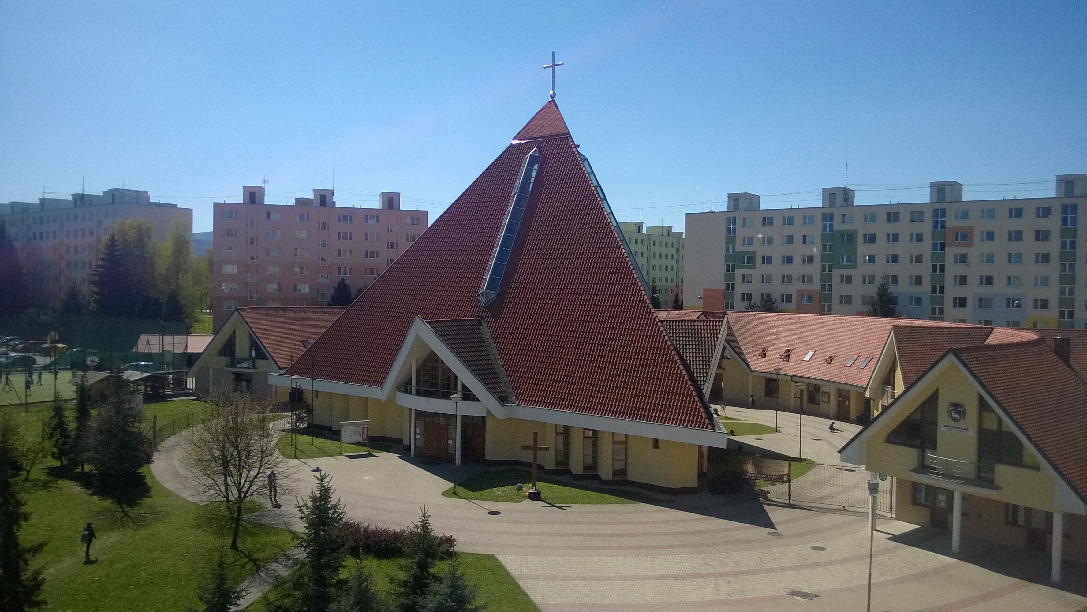 Roman Catholic parish of the Good Shepherd - Žilina, Solinky